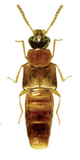 Dorsal view of Gyrophaena (G.) affinis (apical part of abdomen removed).